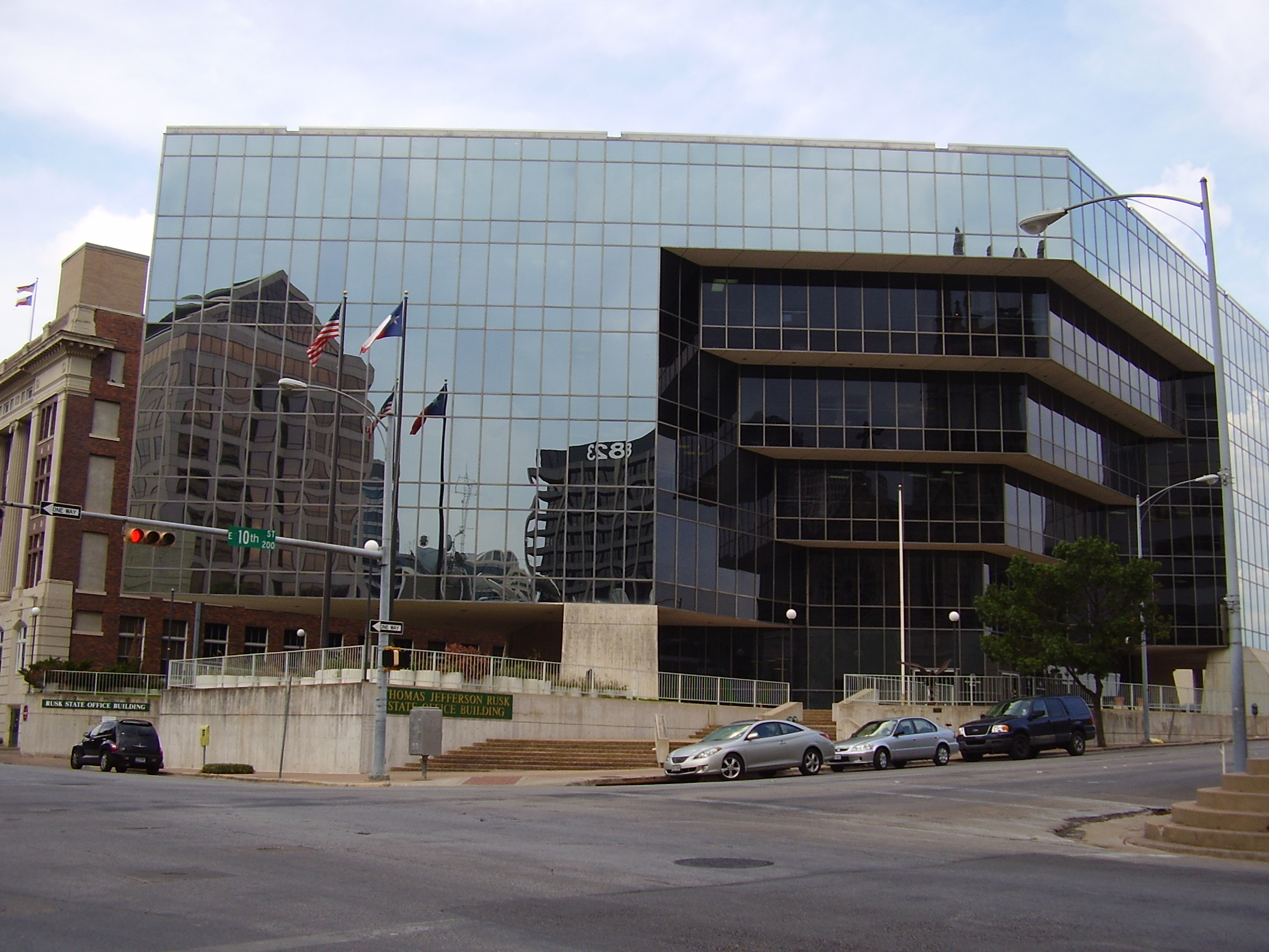 Thomas Jefferson Rusk State Office Building - The Third floor has the Secretary of State of Texas elections offices. Suite 600 has the main offices of the Texas State University System